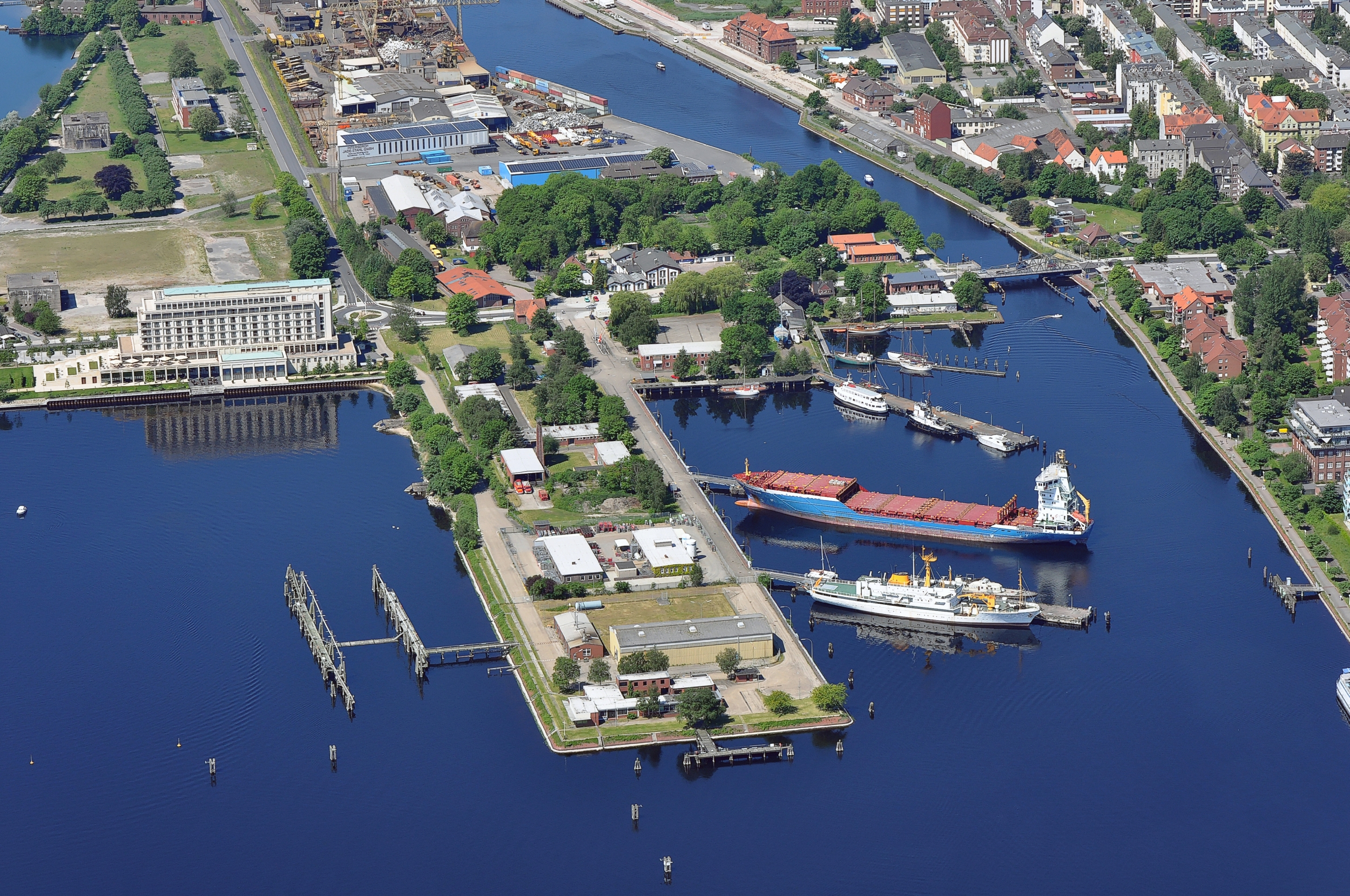 Aerial view of Wilhelmshaven: Wiesbadenbrücke and the deperming facility in Großer Hafen